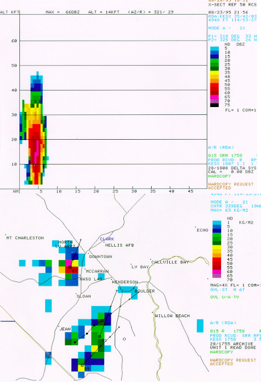 Vertical cut of a severe thunderstorm at the top with the Vertically Integrated Reflectivity (VIL) at the bottom. The cut is done at showing the amount of rain in the 2156 UTC on August 13, 1996 through the cell with red-purple colors showing 63 kg/m2 of water content which is equivalent to 63 mm of rain if the cloud were to completely rain-out.